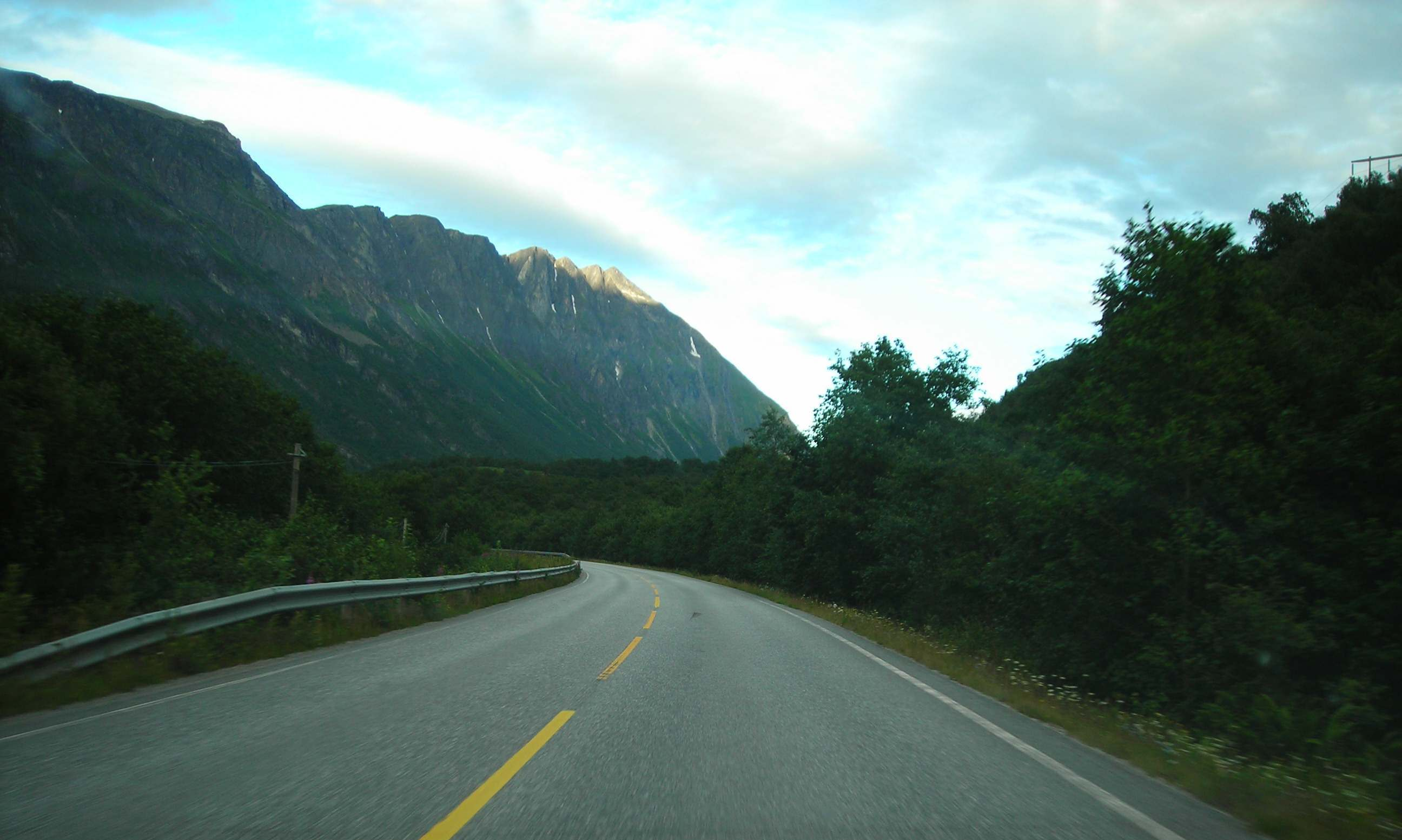 Road 70 in the Sunndalen valley, Møre og Romsdal, Norway